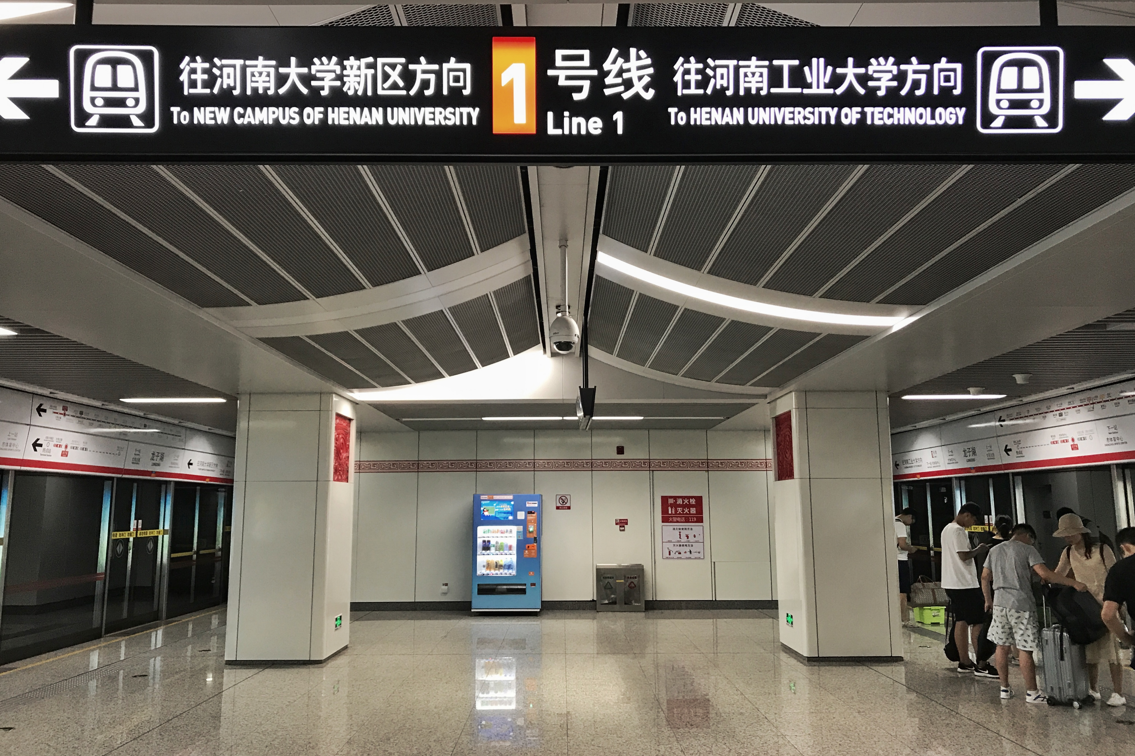 Platform of Longzihu station on Line 1 Zhengzhou Metro